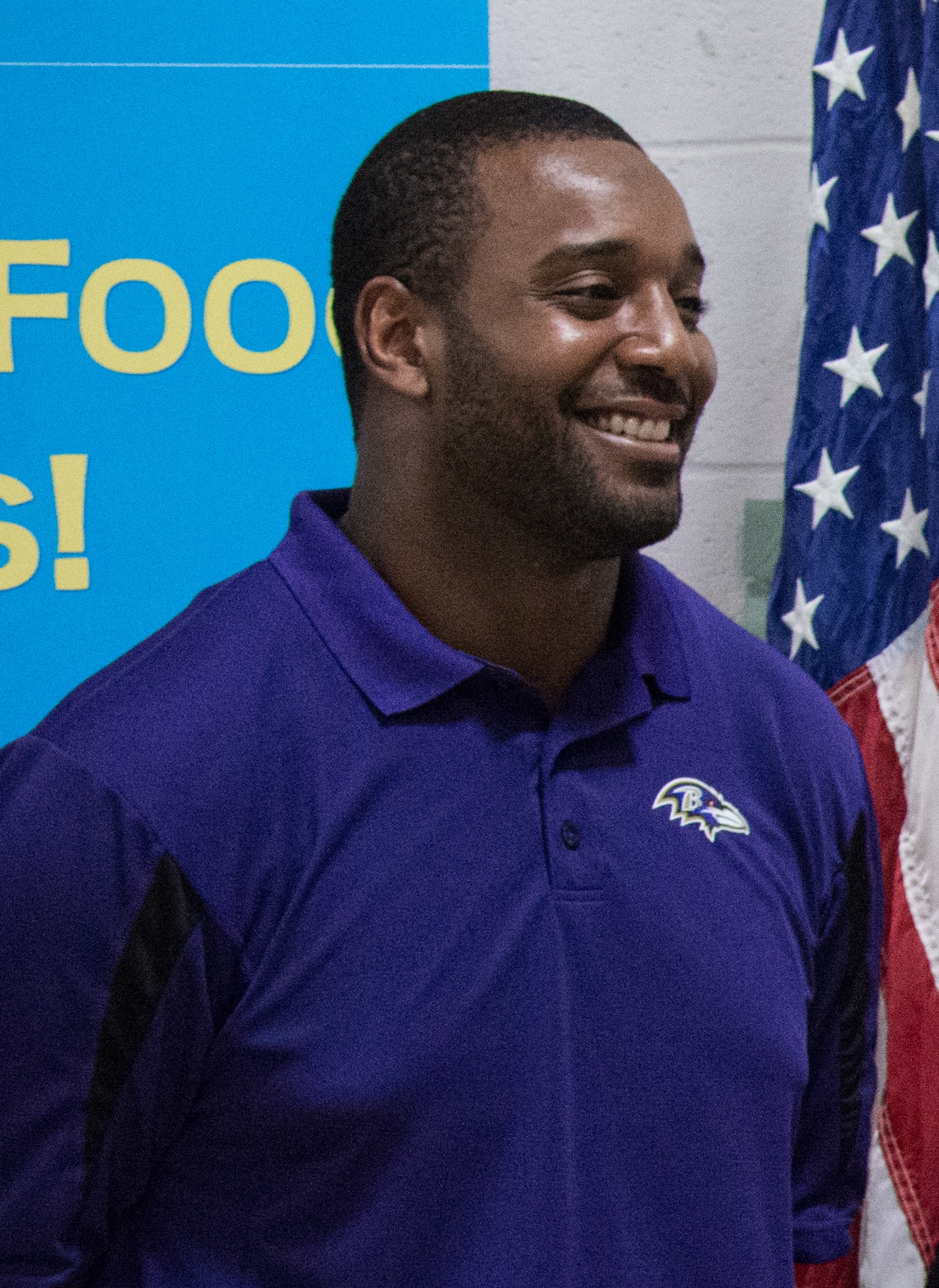 Baltimore Ravens defensive end, Chris Canty, attending a national campaign by USDA in 2014.